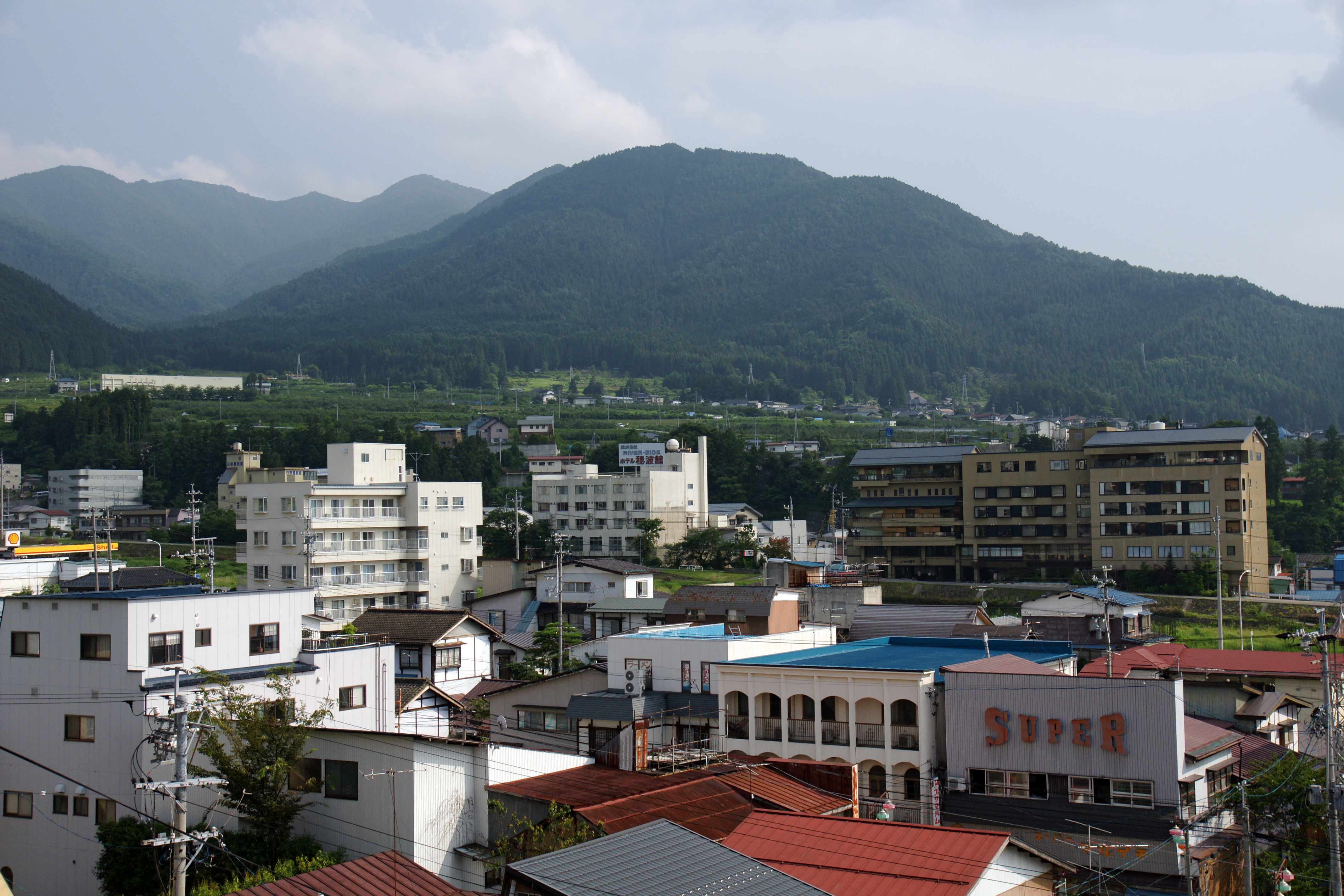 Hoshikawa Onsen ,Yamanouchi, Nagano prefecture, Japan